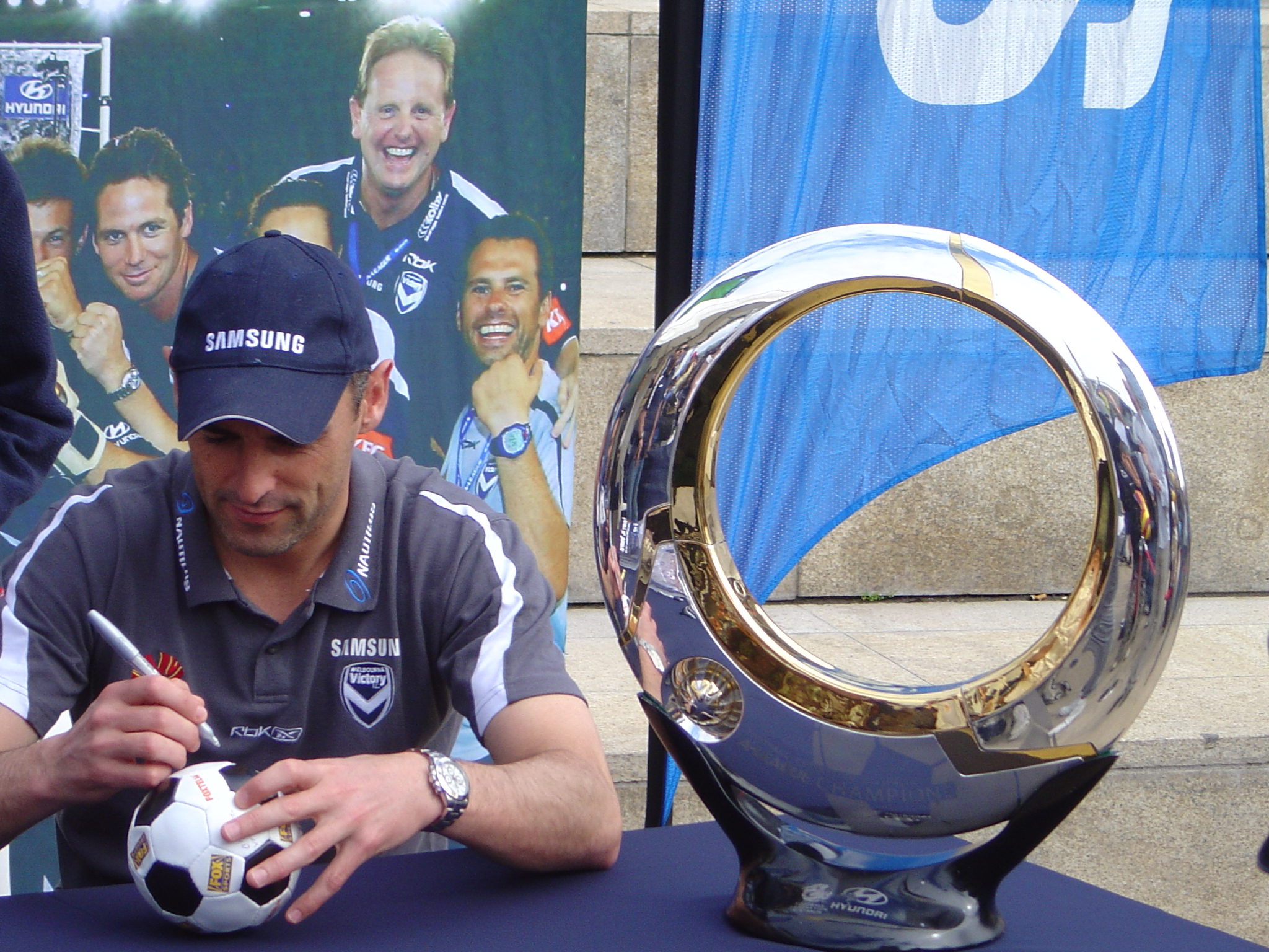 Kevin Muscat (next to the Hyundai A-League 2006/07 Championship trophy) signing an autograph at the Melbourne Victory Family Day, Melbourne Docklands.